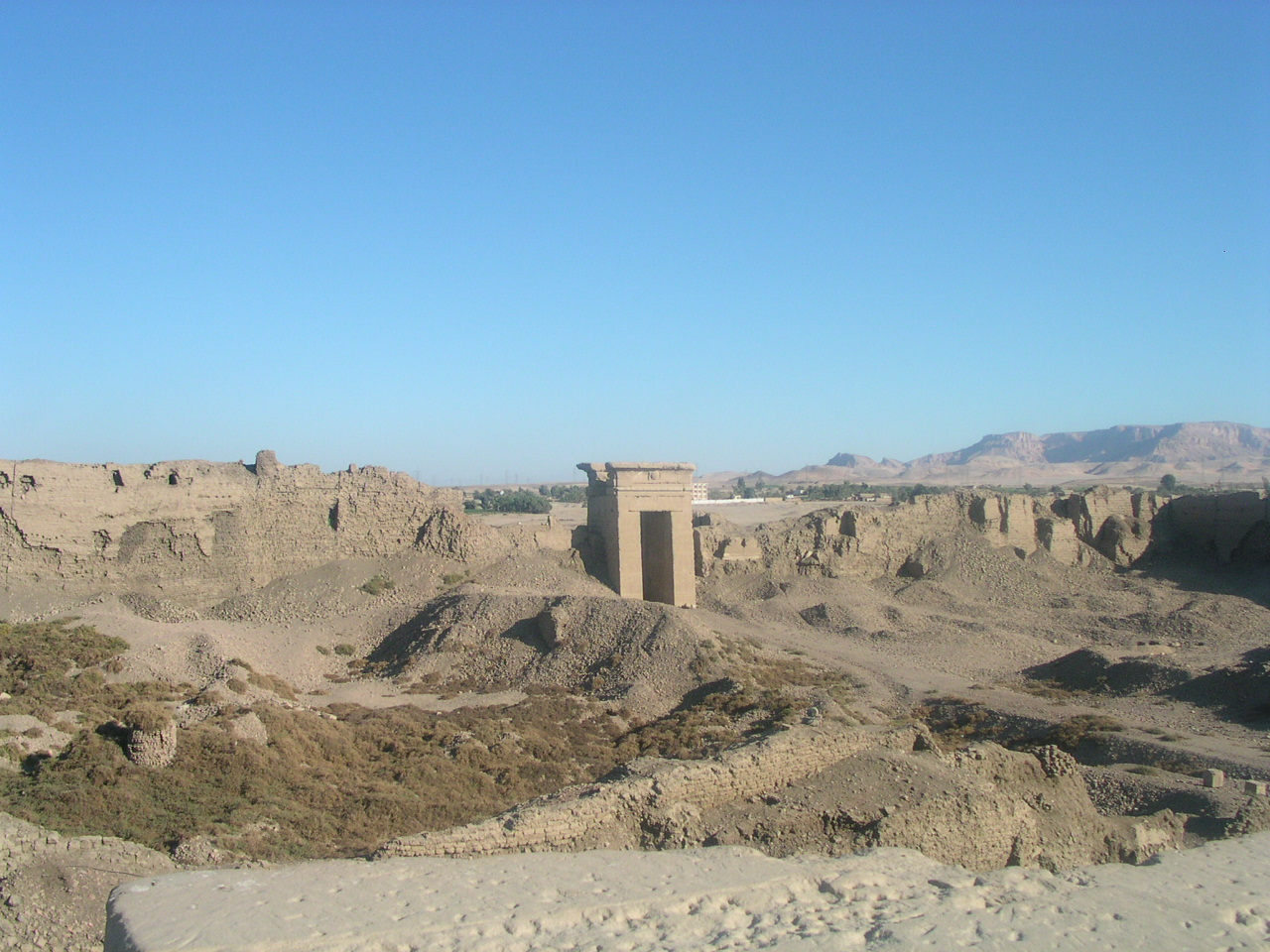 Taken in February 2007.